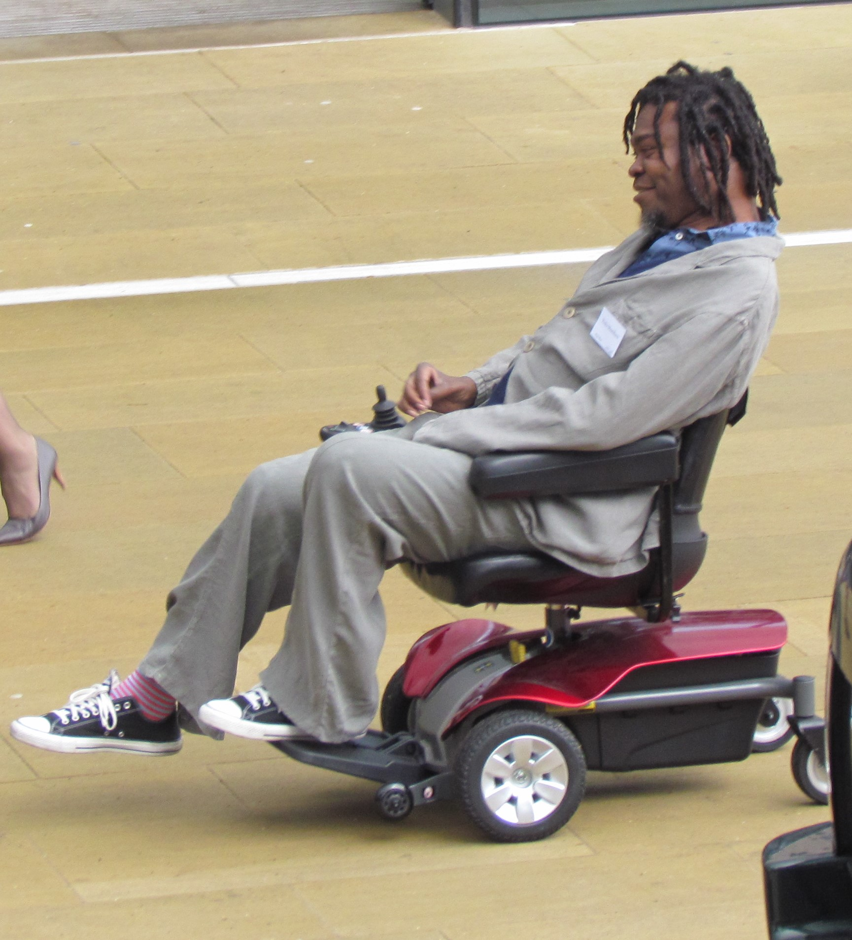 Yinka Shonibare